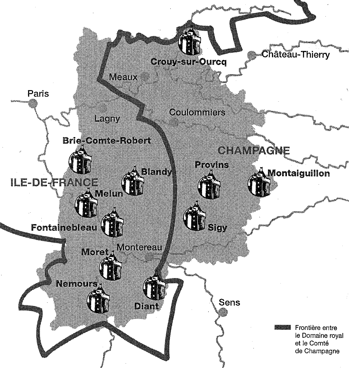 Frontière entre le Domaine royal et le comté de Champagne et localisation de Nemours